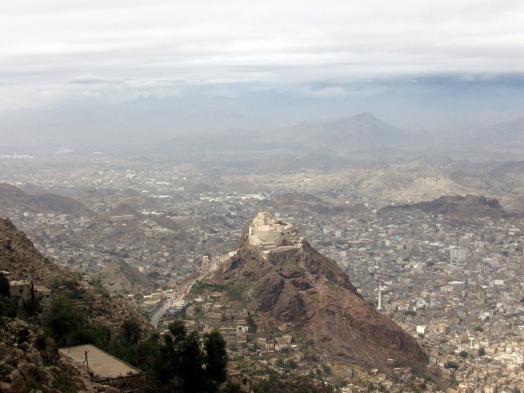 Cairo fortress in Taizz